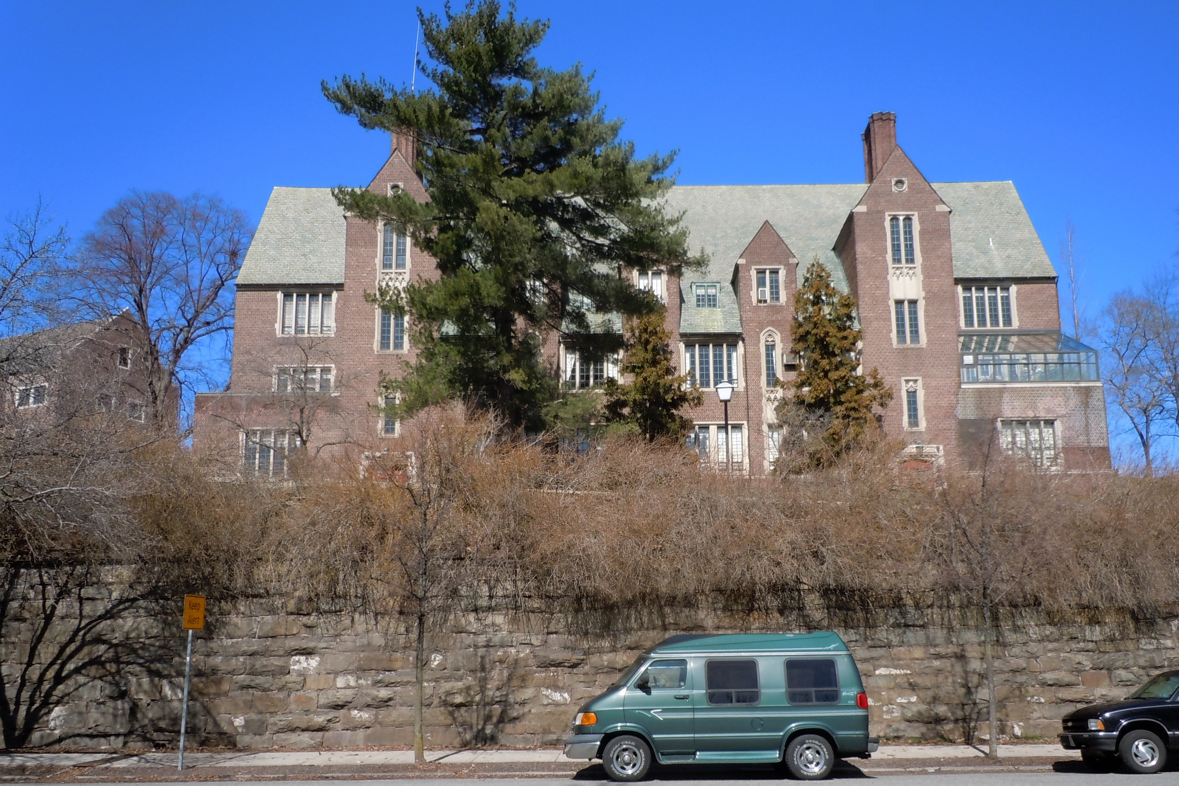 Hill School in High Street Historic District on the NRHP since January 28, 1992. The HD runs from 631–1329 High Street in Pottstown, Pennsylvania. Except for the 500 block, all the lower numbers on High Street are also in a historic district - the Old Pottstown HD. The school, founded in 1851 runs from about 700-900 High Street, high on the hill above High Street.